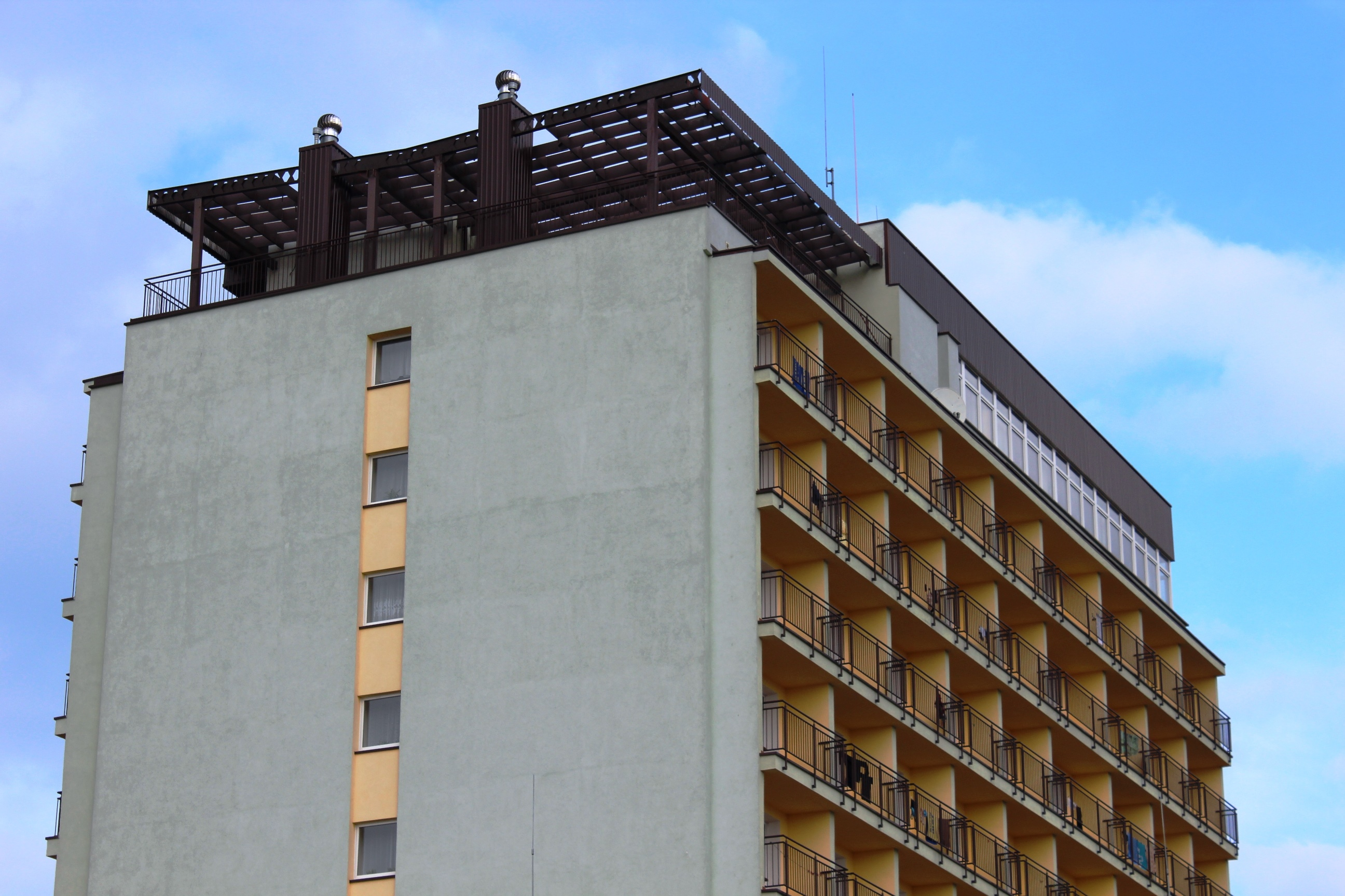 MSW Sanatorium in Kołobrzeg